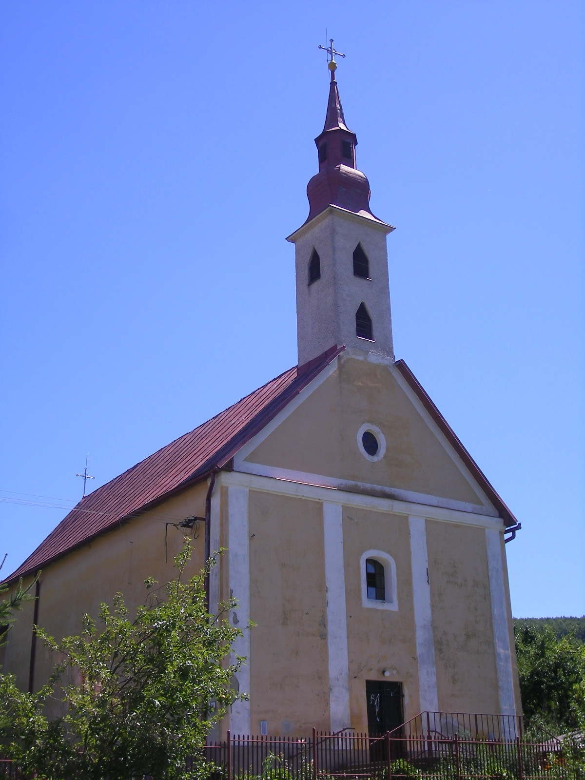 Pača - catholic church